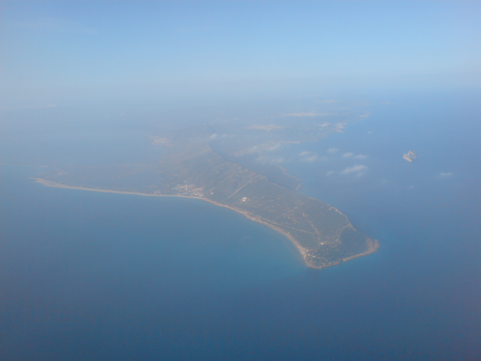 Aerial view of Ras Sidi Ali El Mekki, north of Tunisia